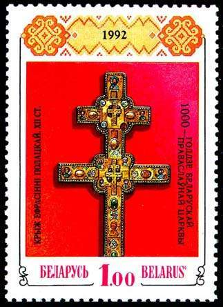 Stamp of Belarus